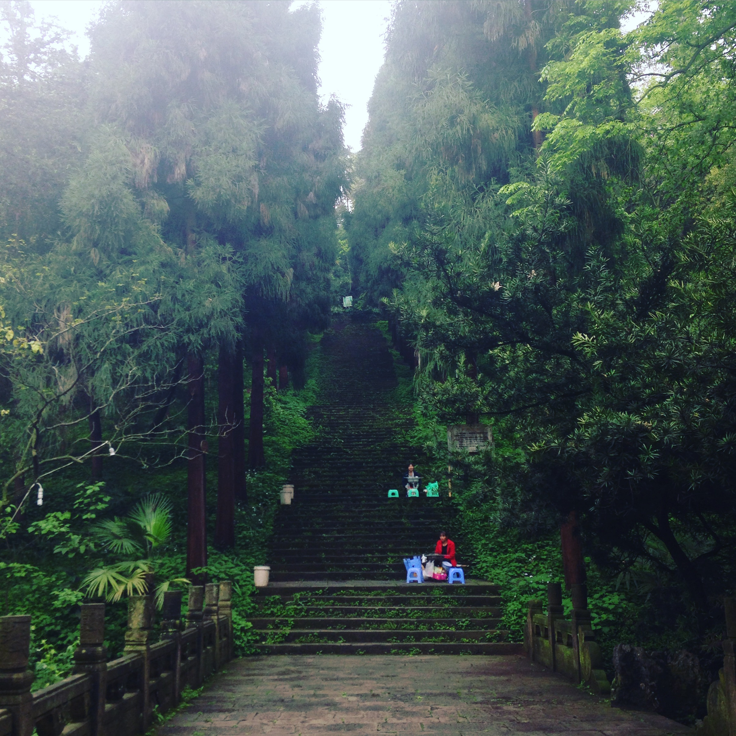 Zunyi Stairs